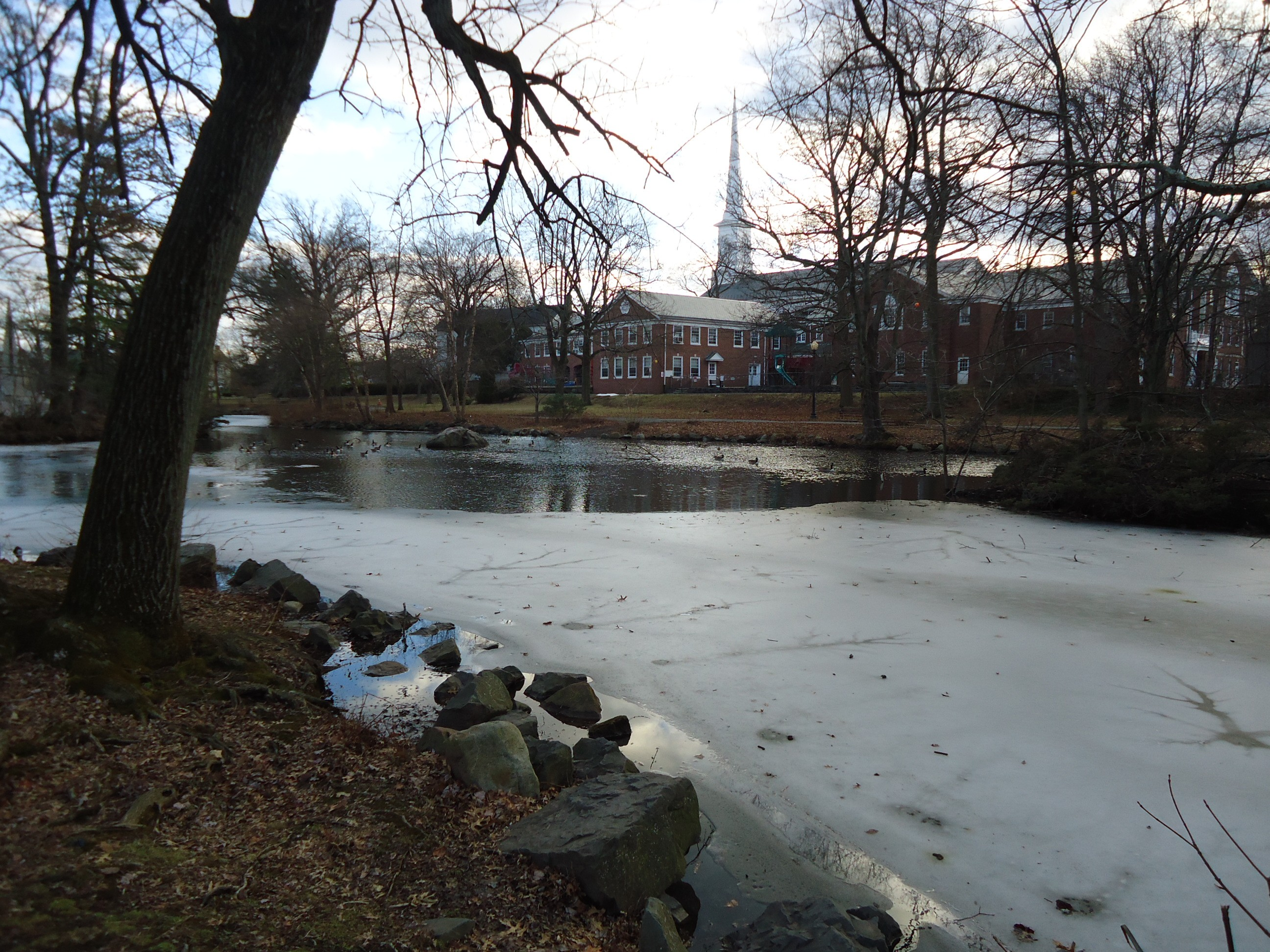 Mindowaskin Park near downtown Westfield, New Jersey, in wintertime. Lake and buildings and trees.